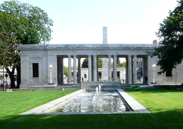 War Memorial Fountains Fountains playing by one the two colonnades either side of the obelisk which together form the substantial Southport War Memorial.